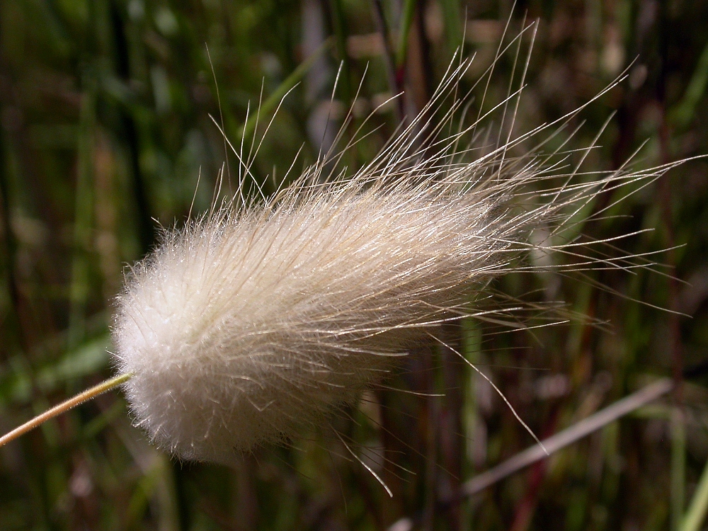 cf. Lagurus ovatus, Aigues-Mortes, Camargue, France